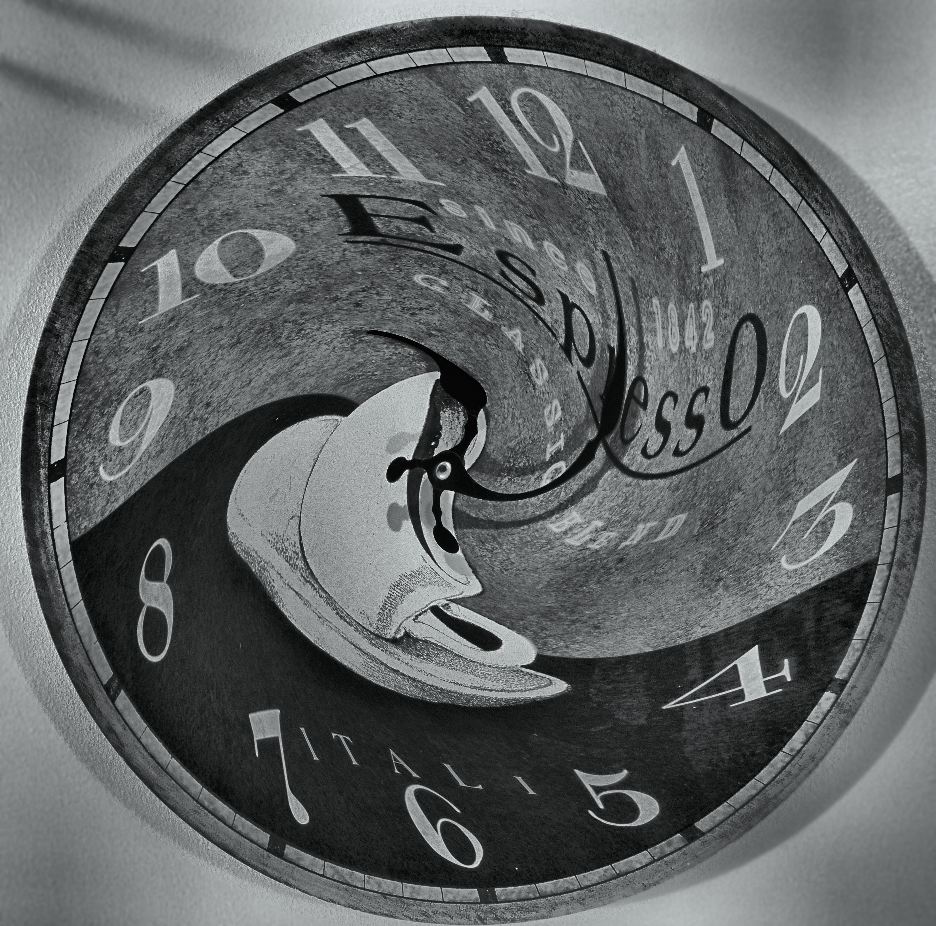 Time Warp